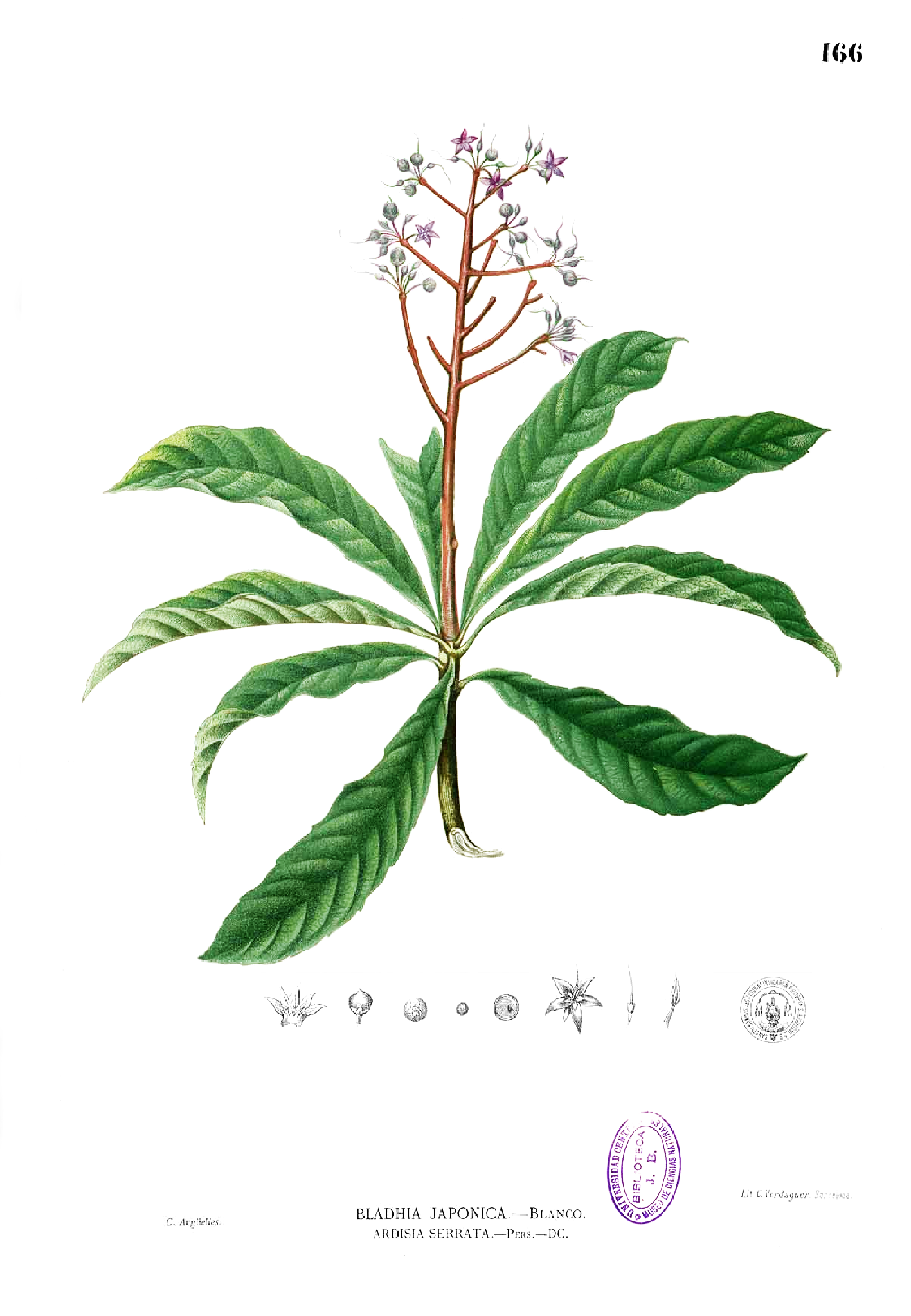 Ardisia pyramidalis Plate from book